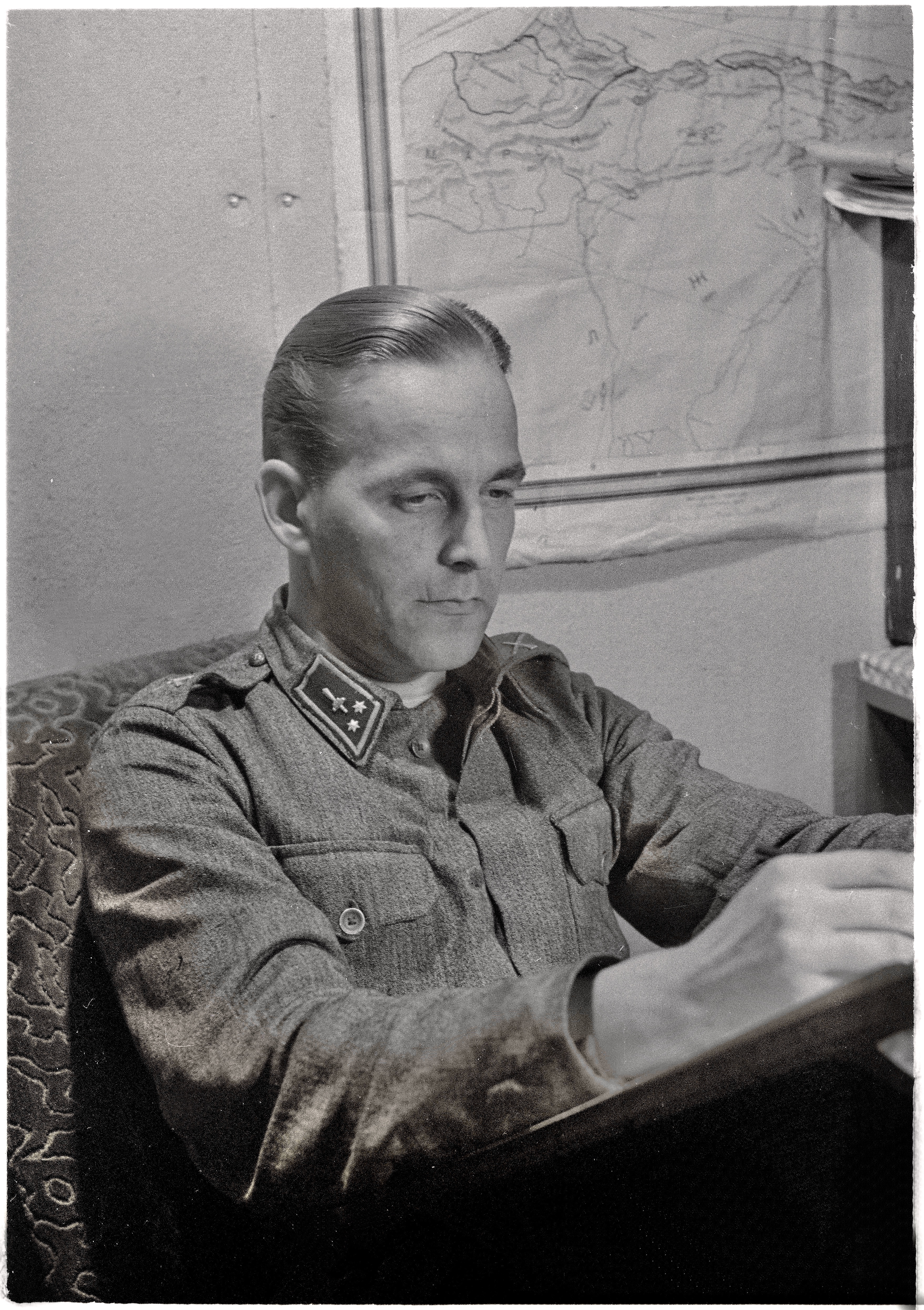 TK-piirtj taiteilija Poika Vesanto. Finnish illustrator Poika Vesanto